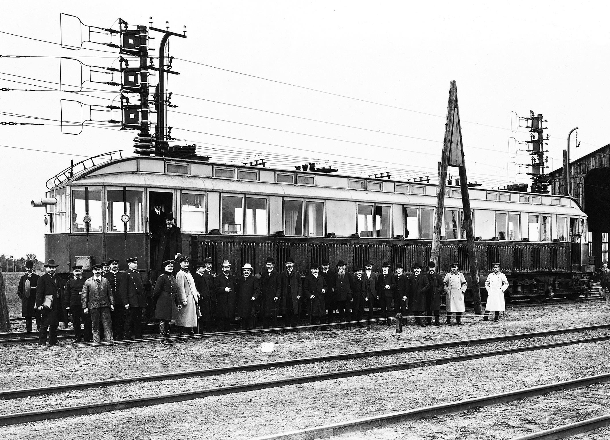 A high speed train driven with three phase current from 1903. Train manufactured by Siemens, Germany.